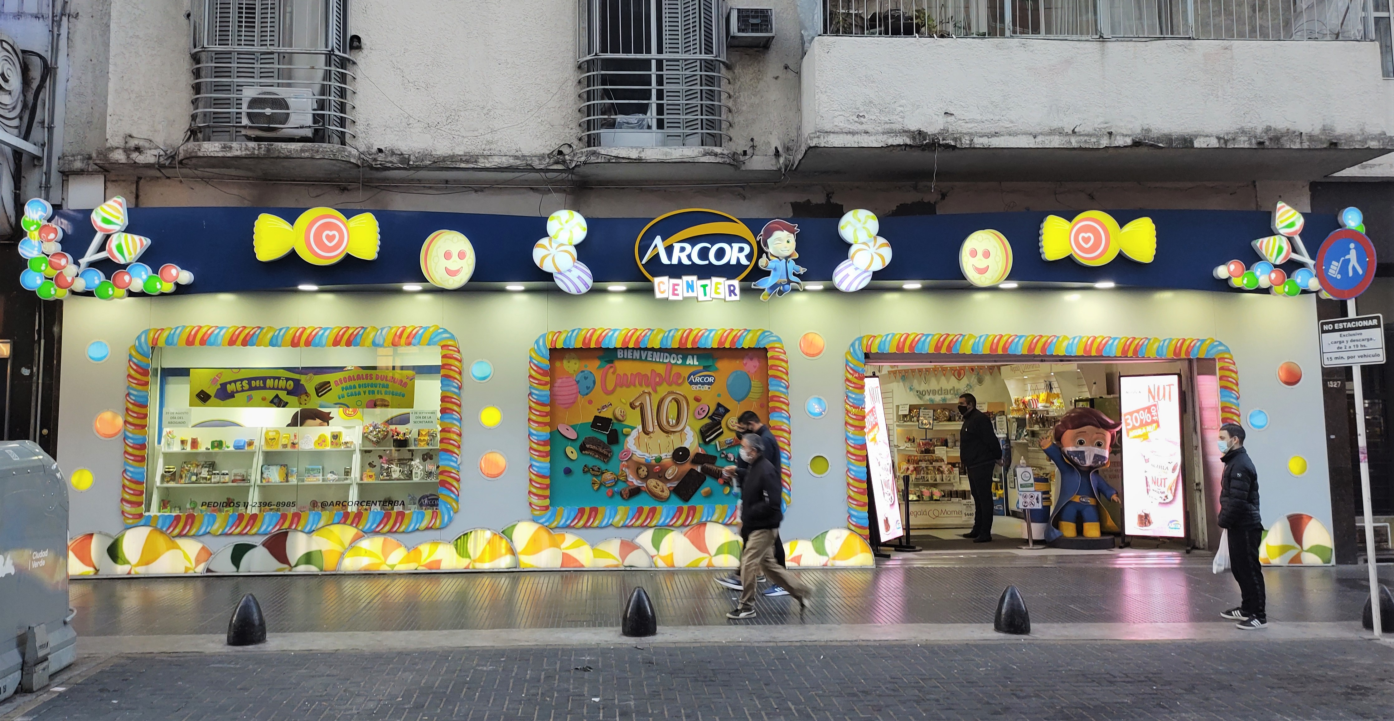 Front view of the Arcor Center, a candy store by Argentine company Arcor. This is located on Corrientes Avenue, Buenos Aires.